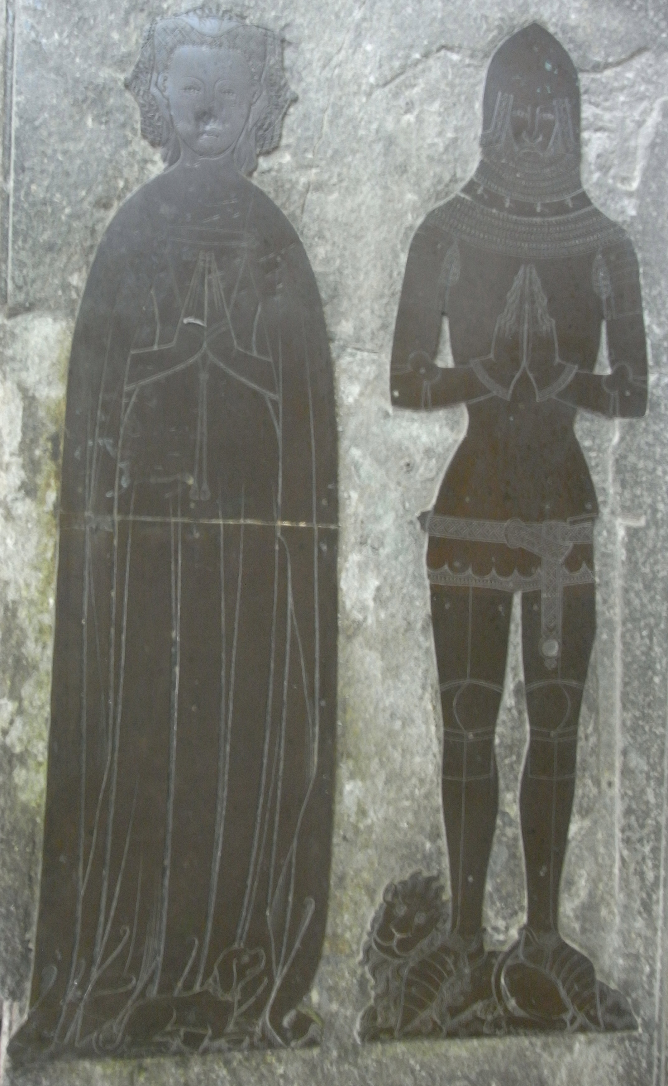 Monumental brass of Thomas Berkeley, 5th Baron Berkeley (d.1417), Church of St Mary the Virgin, Wotton-under-Edge, Gloucestershire. From same workshop as the very similar brass of Maurice Russell, knight(d.1416) at Dyrham Church, Glos.